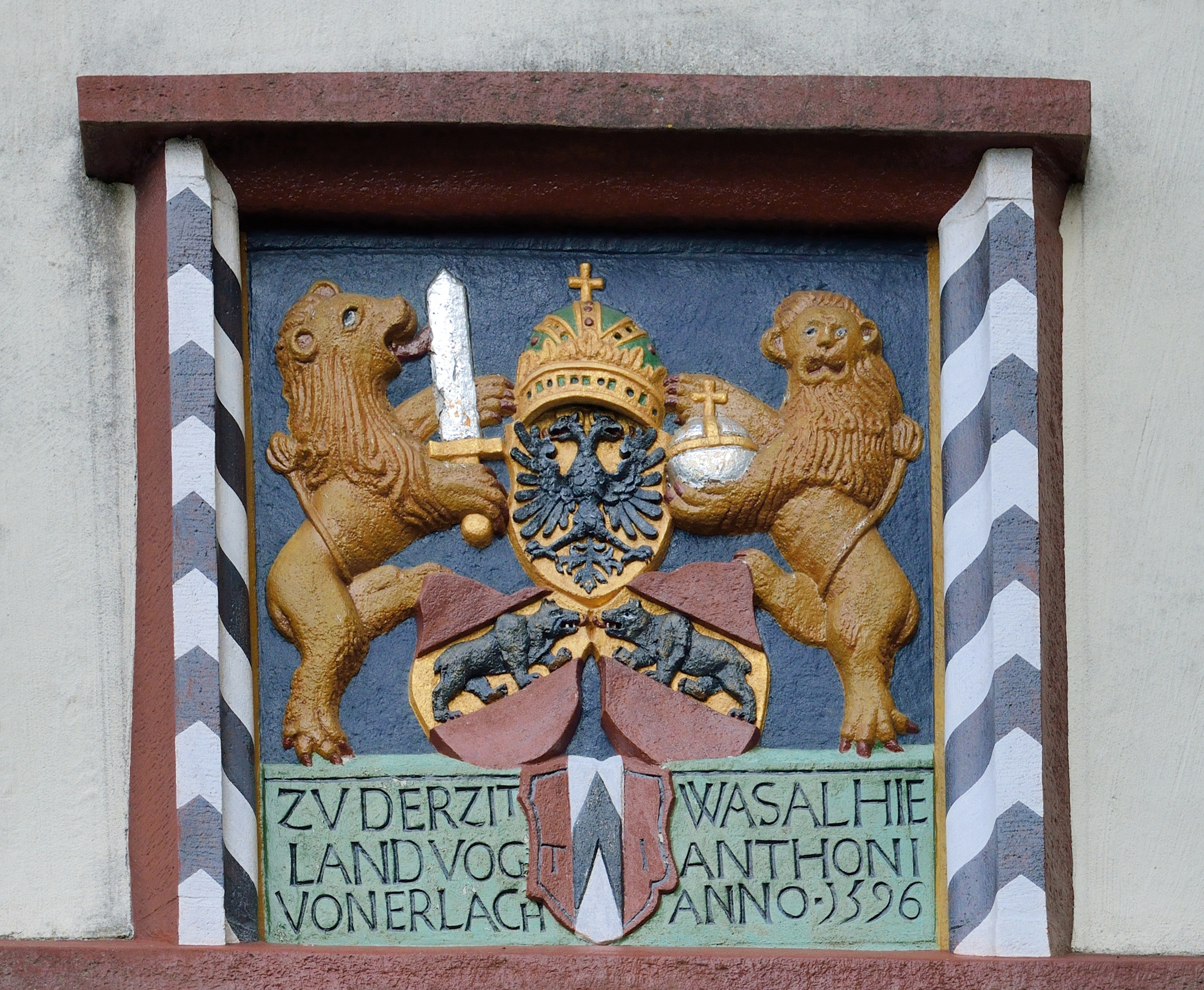 Lenzburg Castle, coat of arms on the upper gatehouse